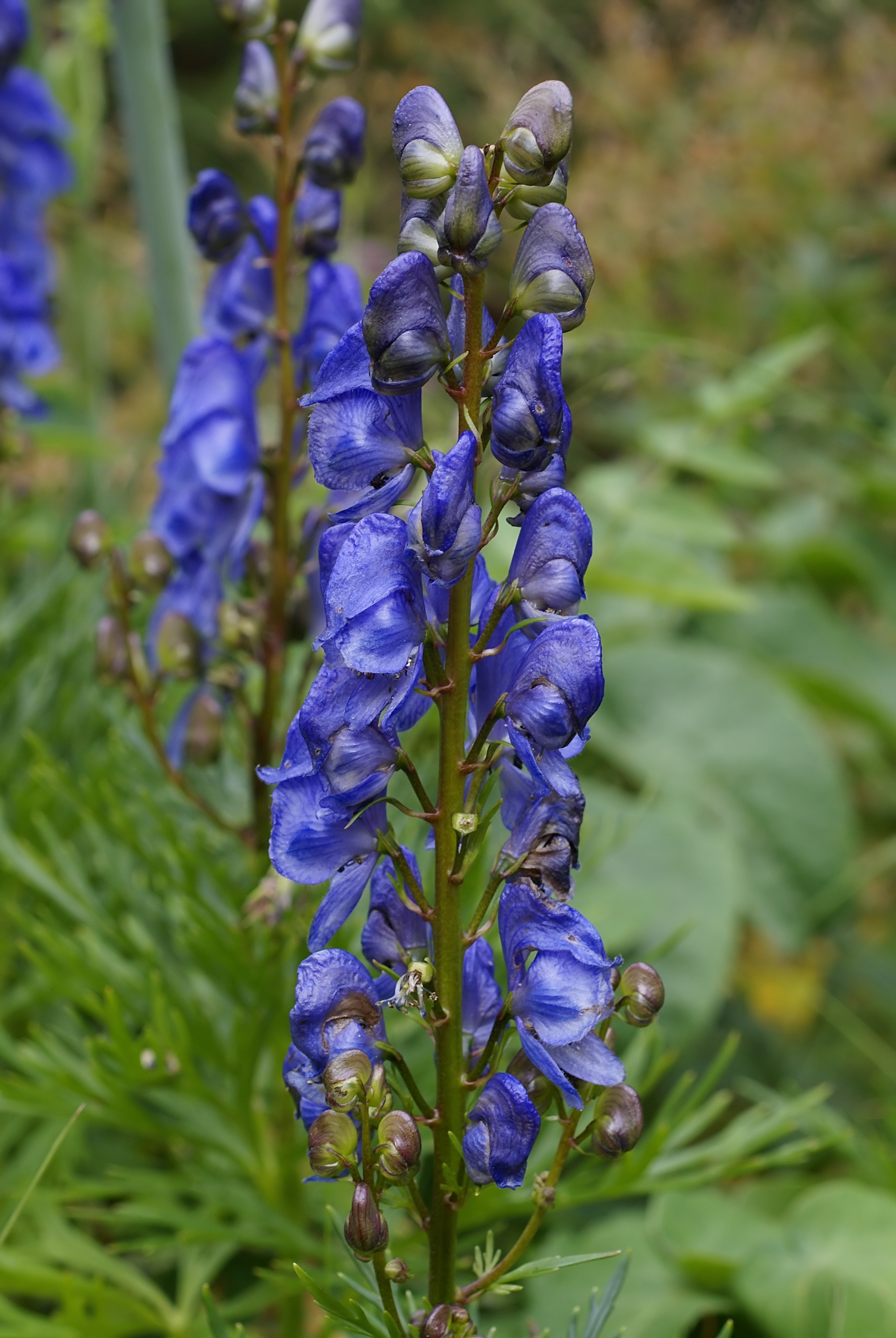 Monkshood close to el Serrat, Andorra